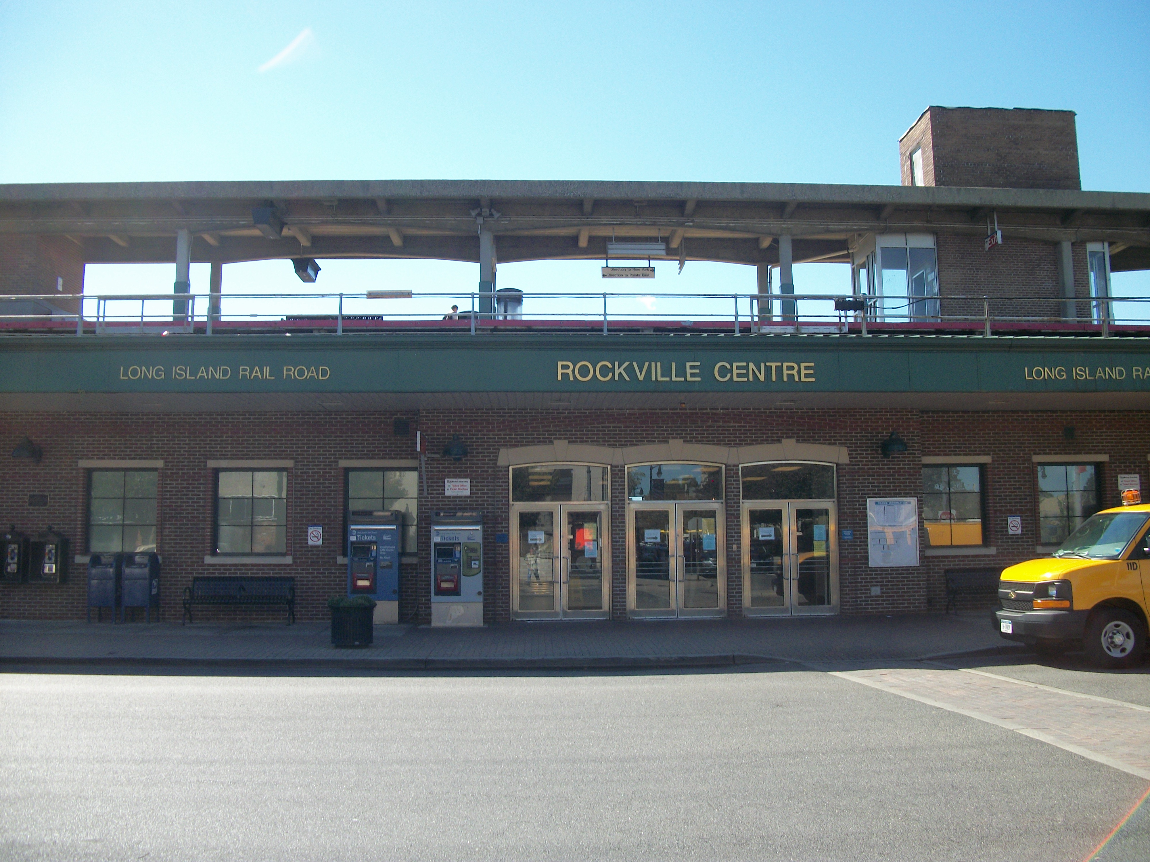 The main entrance of Rockville Centre (LIRR station) along Front Street on the north side of the station in Rockville Centre, New York. That's a Chevrolet Express van owned by the Long Island Rail Road on the right.